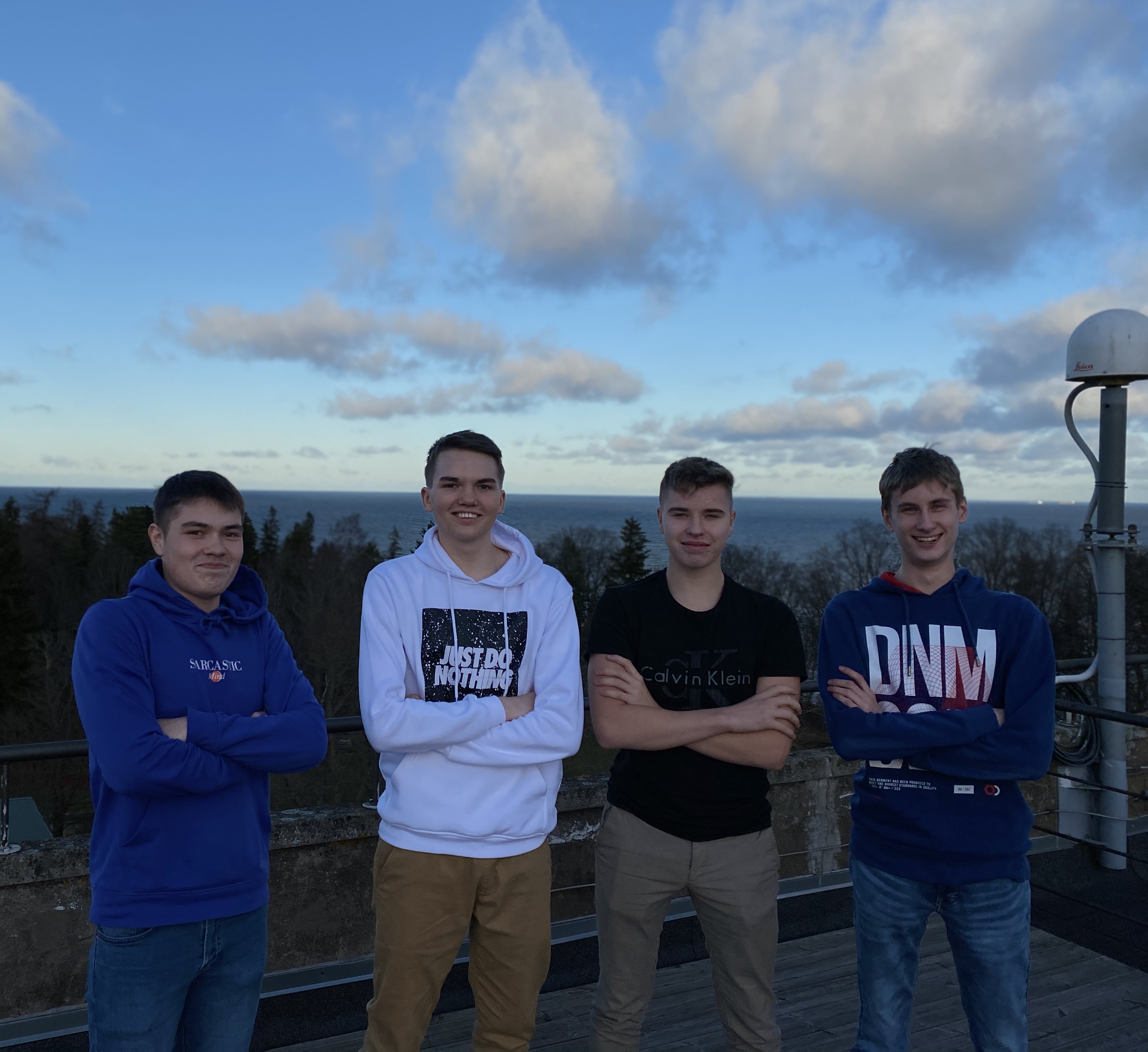 TEAMIIVI